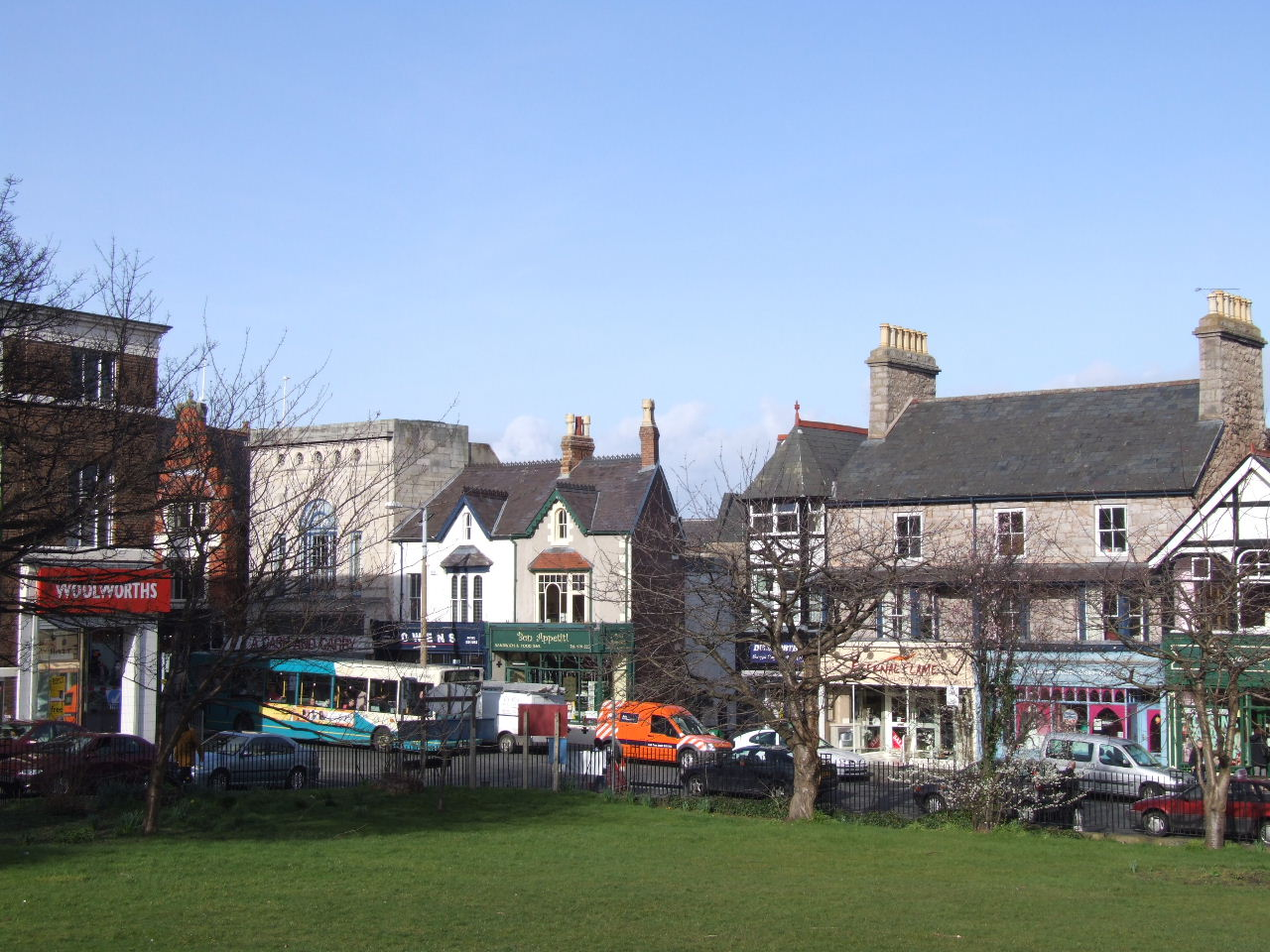 Centre of Colwyn Bay, Conwy County, Wales.